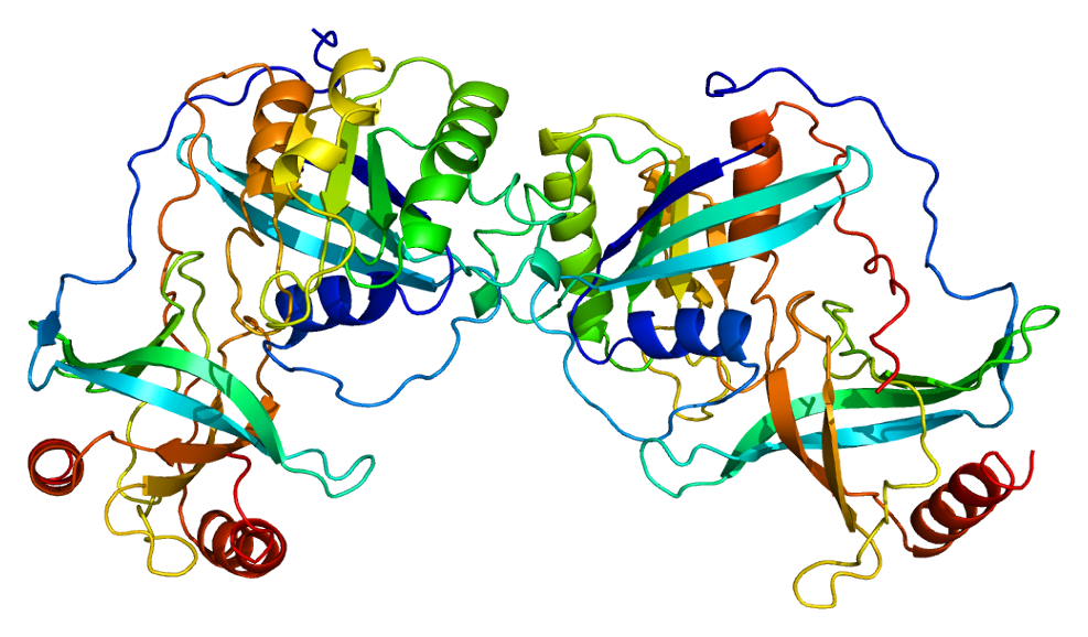 Structure of the RANBP2 protein. Based on PyMOL rendering of PDB 1rrp.